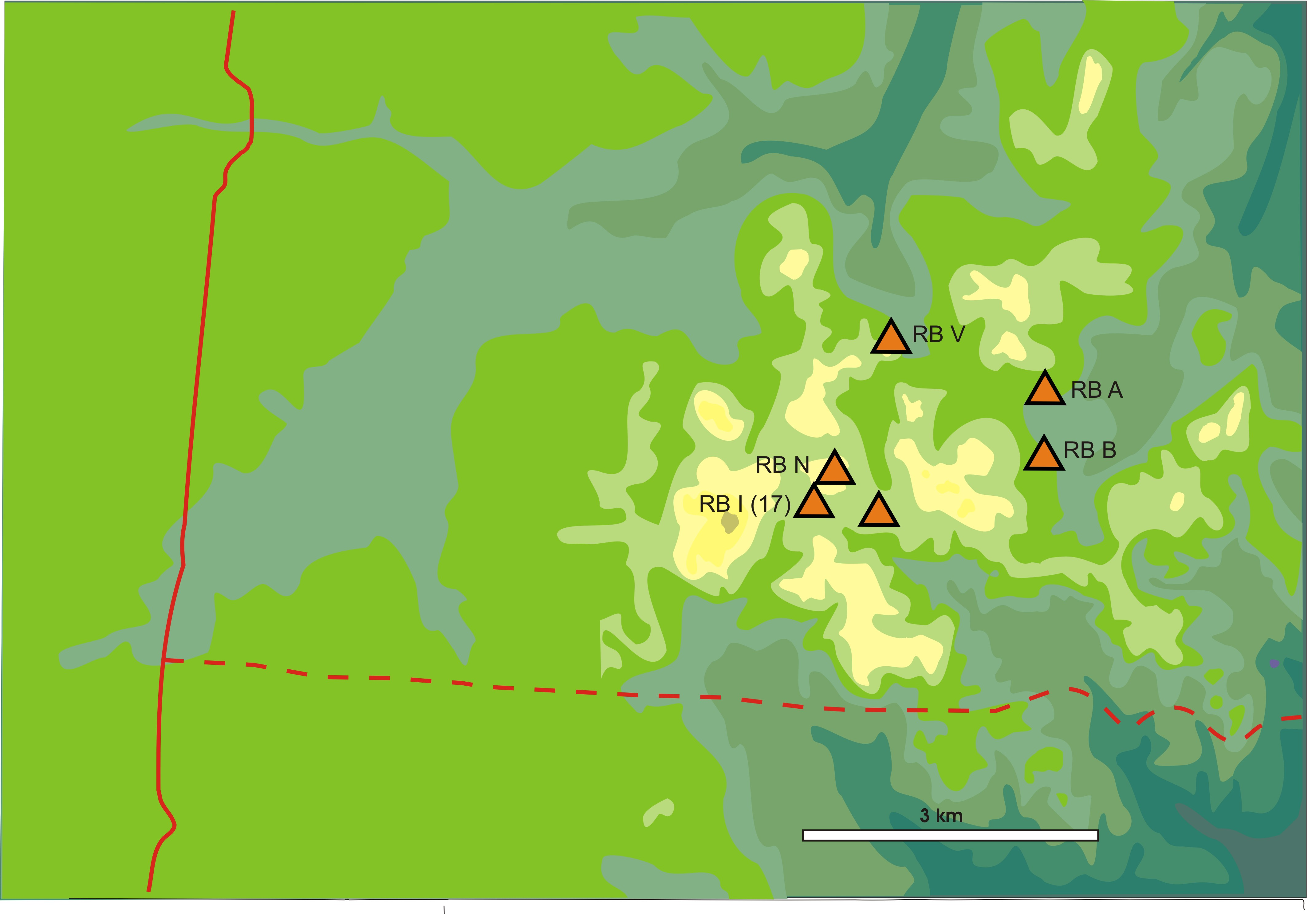 Map of major Mayan sites of Río Bec. Located in Campeche, Mexico.